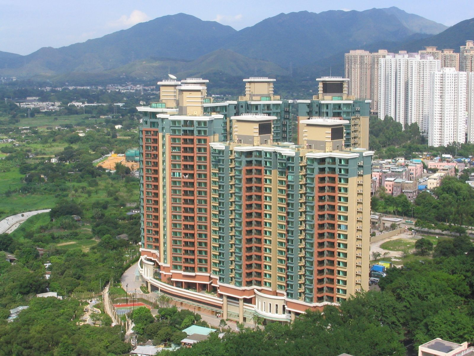 上水-皇府山 Noble Hill, Sheung Shui